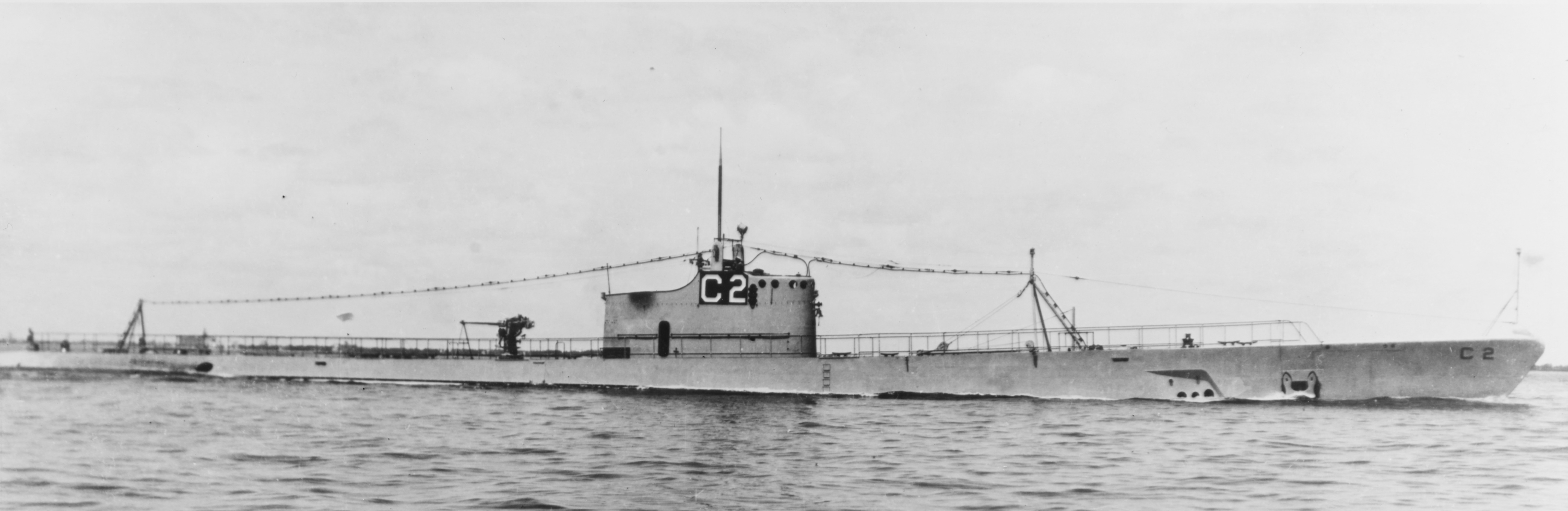 (SS-171) Underway, circa 1934. Photograph from the Bureau of Ships Collection in the U.S. National Archives.